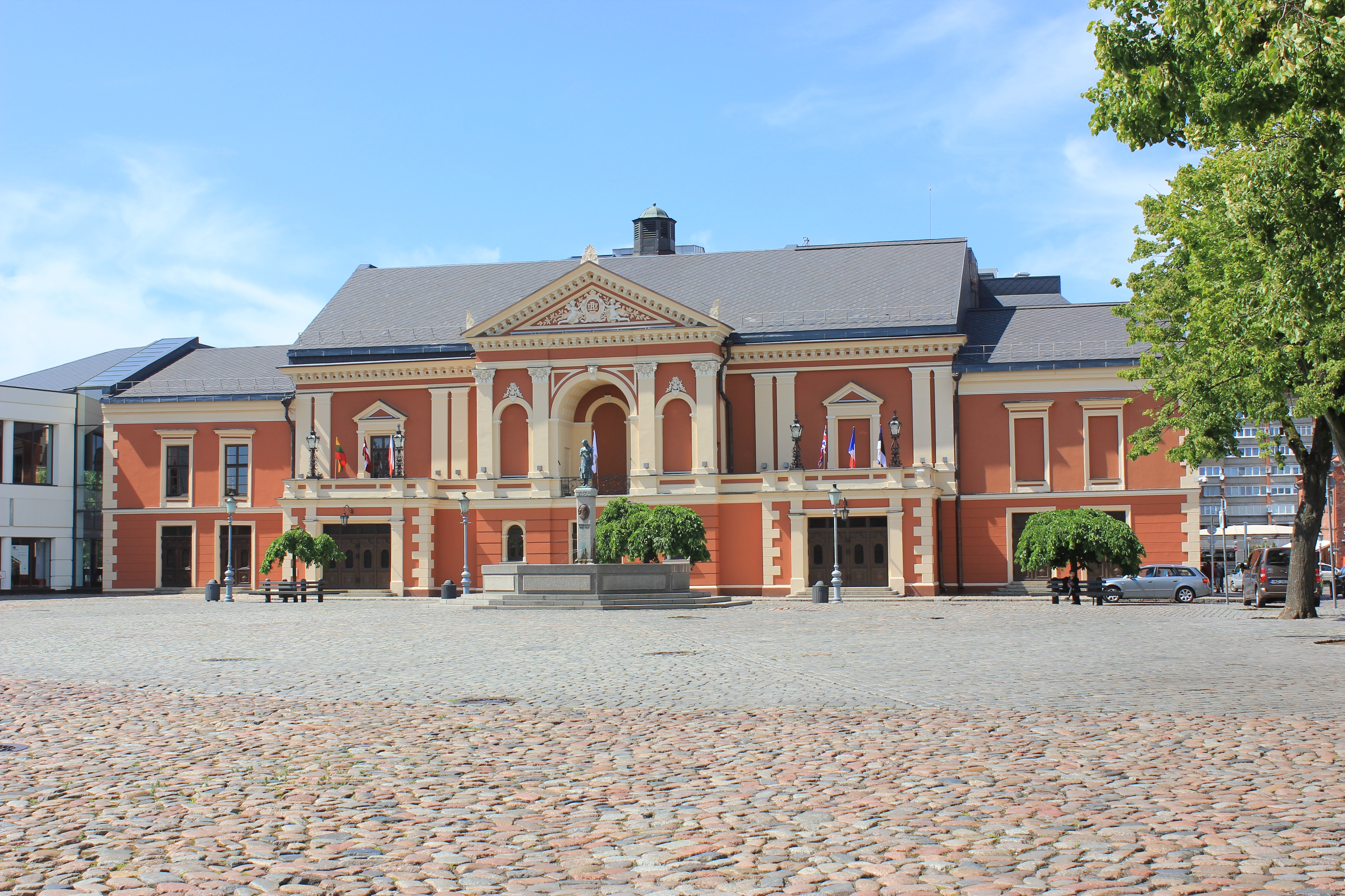 Klaipeda - Drama Theatre